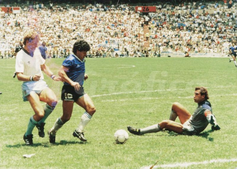 Maradona dribbling Peter Shilton to score his second goal v. England.